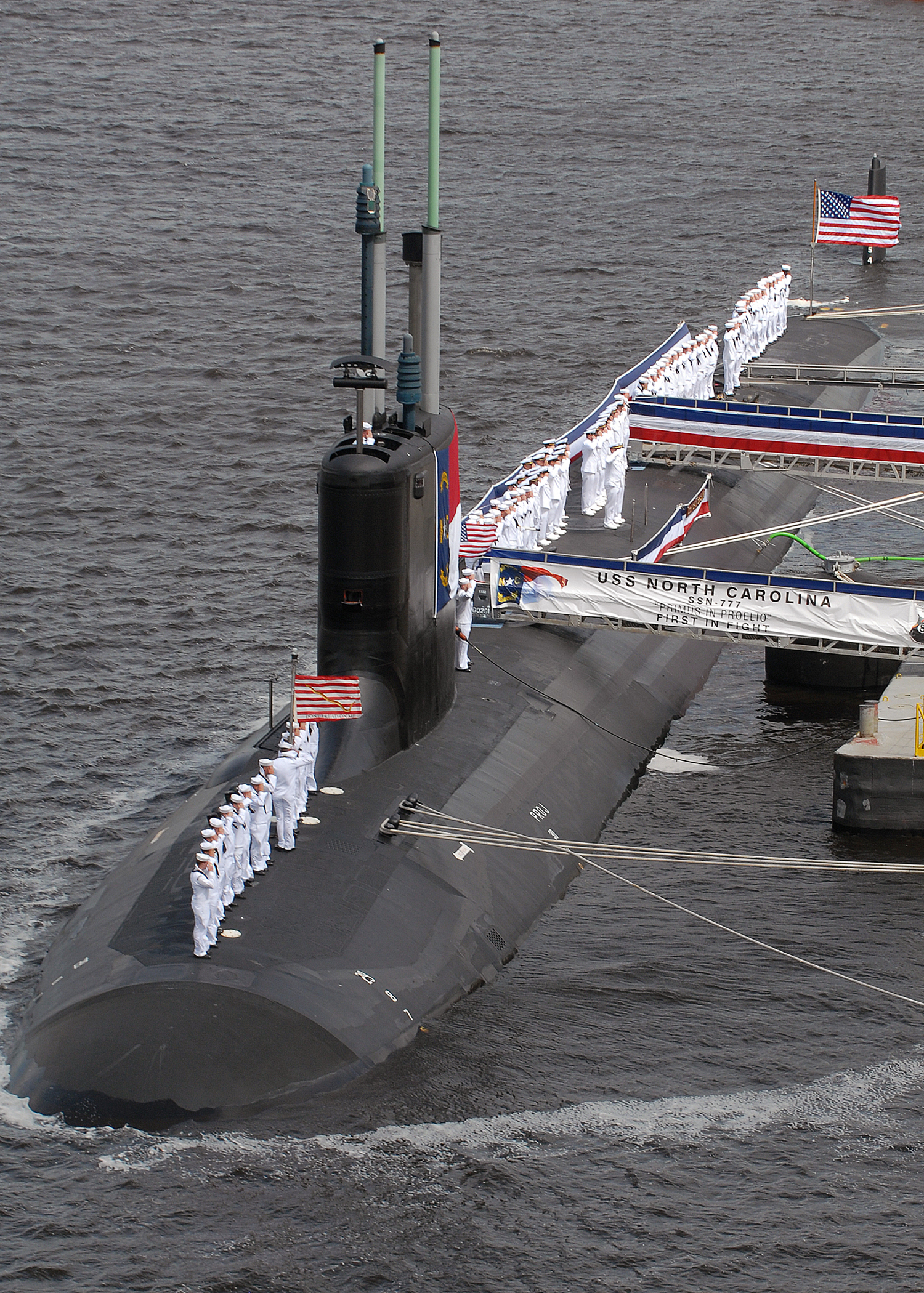 080503-N-8655E-002 WILMINGTON, N.C. (May 3, 2008) Sailors "man the ship" and officially bring the newest Virginia-class nuclear attack submarine USS North Carolina (SSN 777) to life during her commissioning ceremony. North Carolina is the fourth Virginia-class submarine to be commissioned and the first major U.S. Navy combatant vessel class designed with the post-Cold War security environment in mind. North Carolina will be homeported in Groton, Conn., as a member of the U.S. Atlantic Fleet. U.S. Navy photo By Mass Communication Specialist 3rd Class Kelvin Edwards (Released)